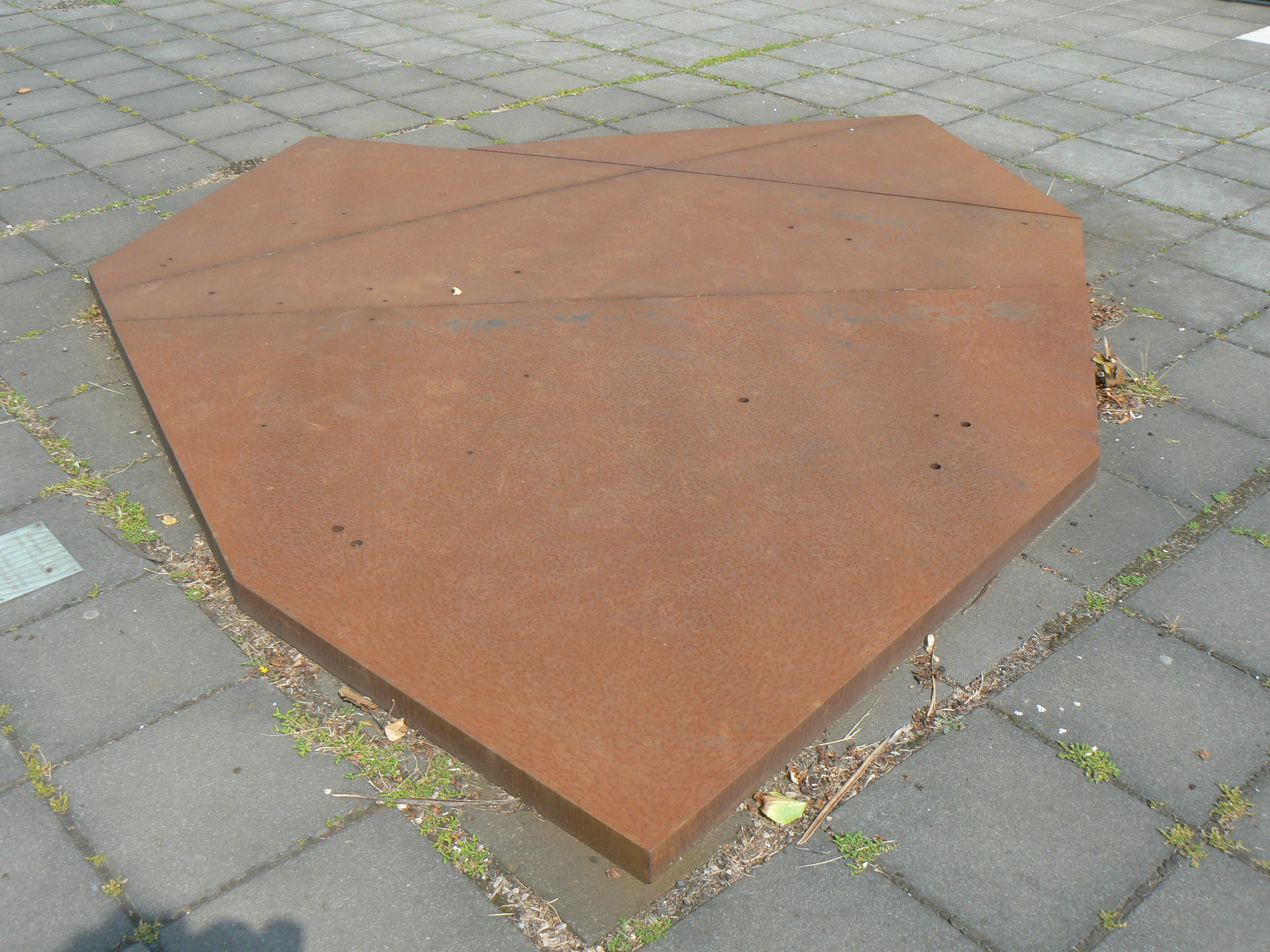 Sculpture Metrical (Romanesque) Construction in 5 Masses and 2 Scales (1973/1991) by David Rabinowitch in Duisburg/Germany